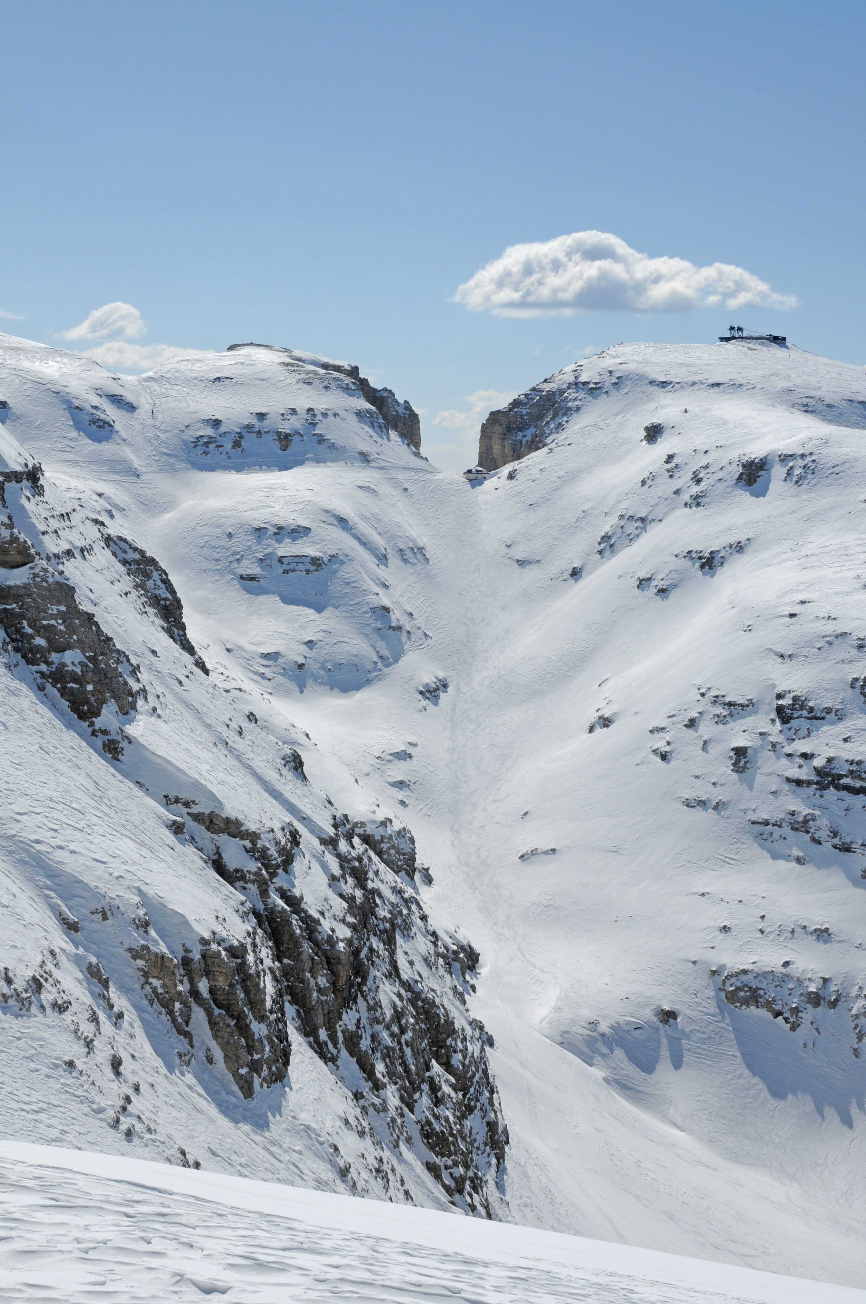 "Vallon del Foss" vally. Input to the Val Lasties in the Sella Group, South Tyrol